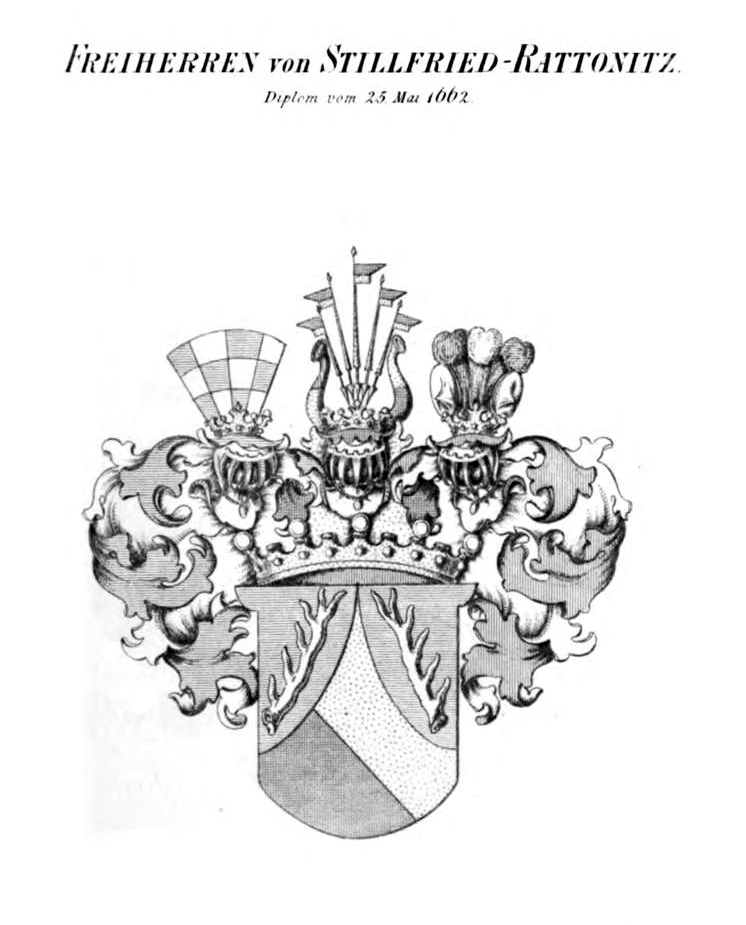 Wappen Stillfried Rattonitz 2 - Tyroff HA.jpg